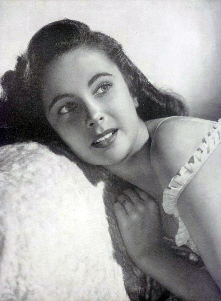 Publicity photo of Elizabeth Taylor for Argentinean Magazine, 1947. (Printed in USA)